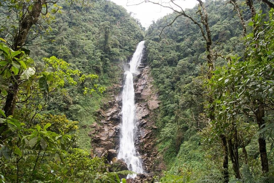 cascada